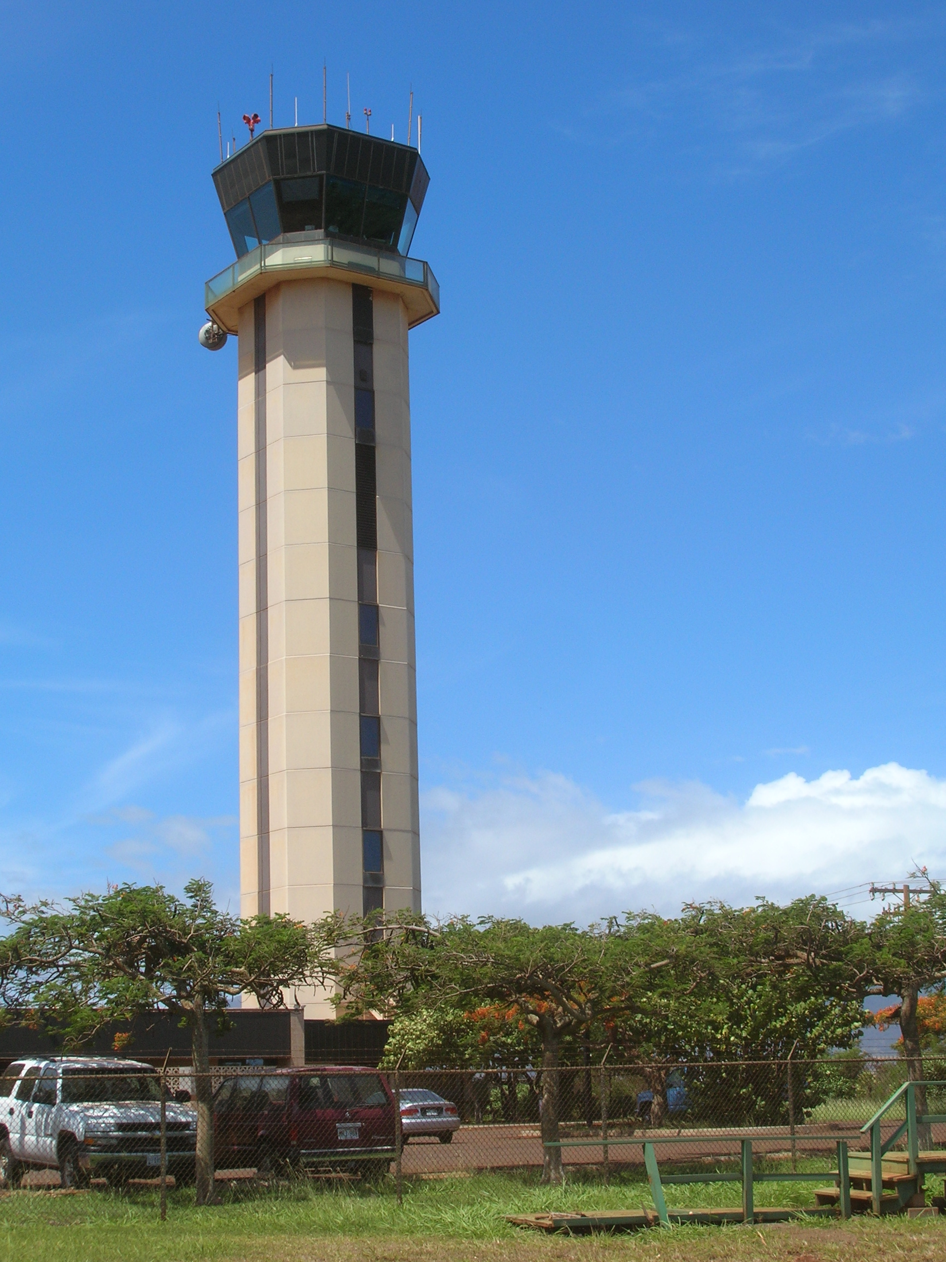 Delonix regia (Royal poinciana) Habit and view ATC tower at Kahului Airport, Maui, Hawaii. August 20, 2006 #060820-8611 - Image Use Policy